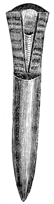 Belemnite canaliculatus